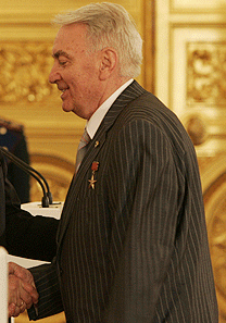 Igor Spassky, Russian engineer